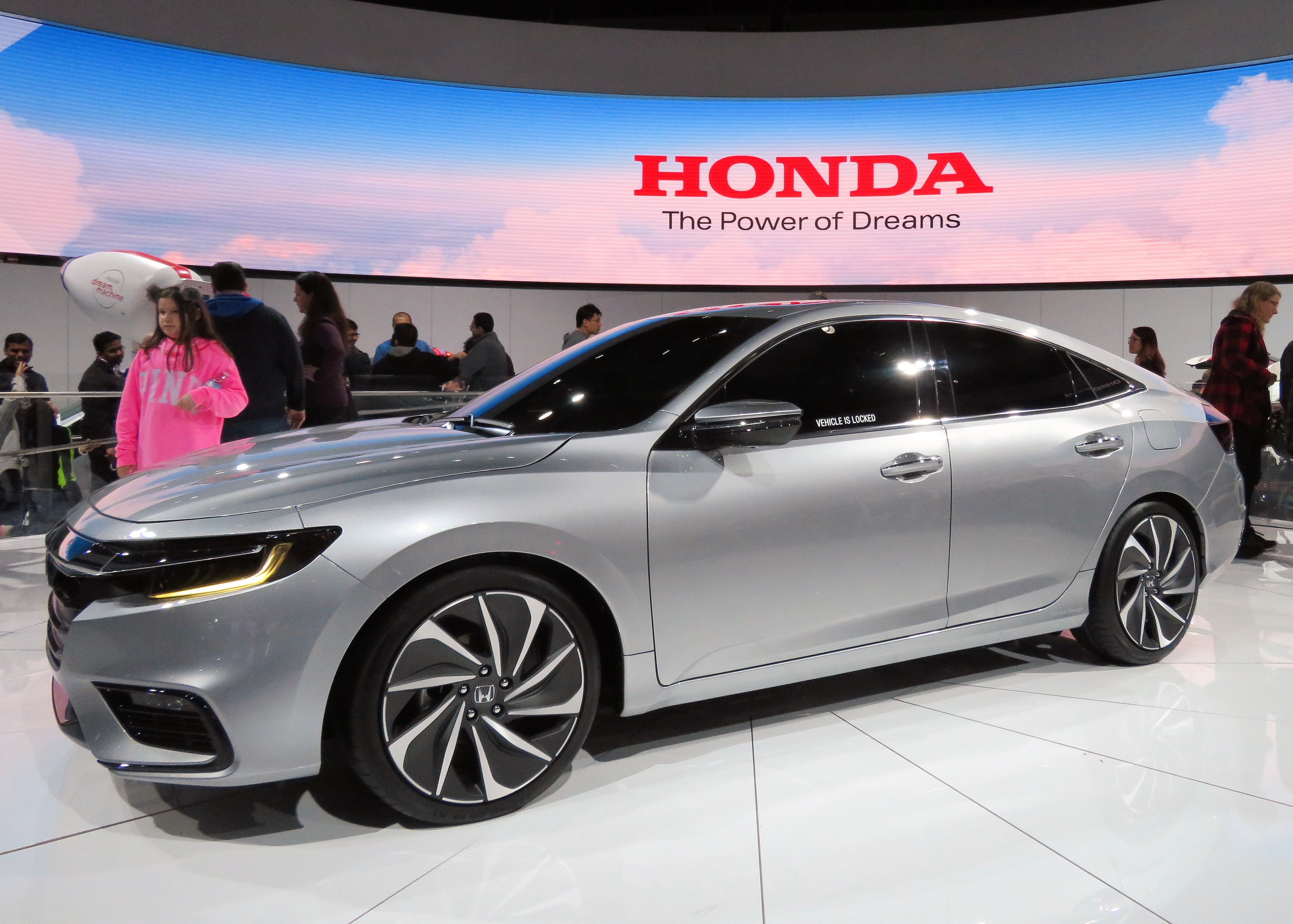 Honda Insight Prototype Concept Car